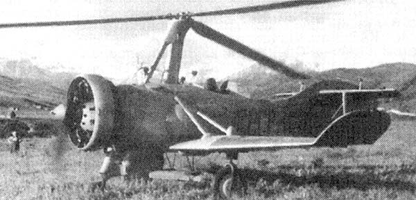 A-7bis in Tian Shan